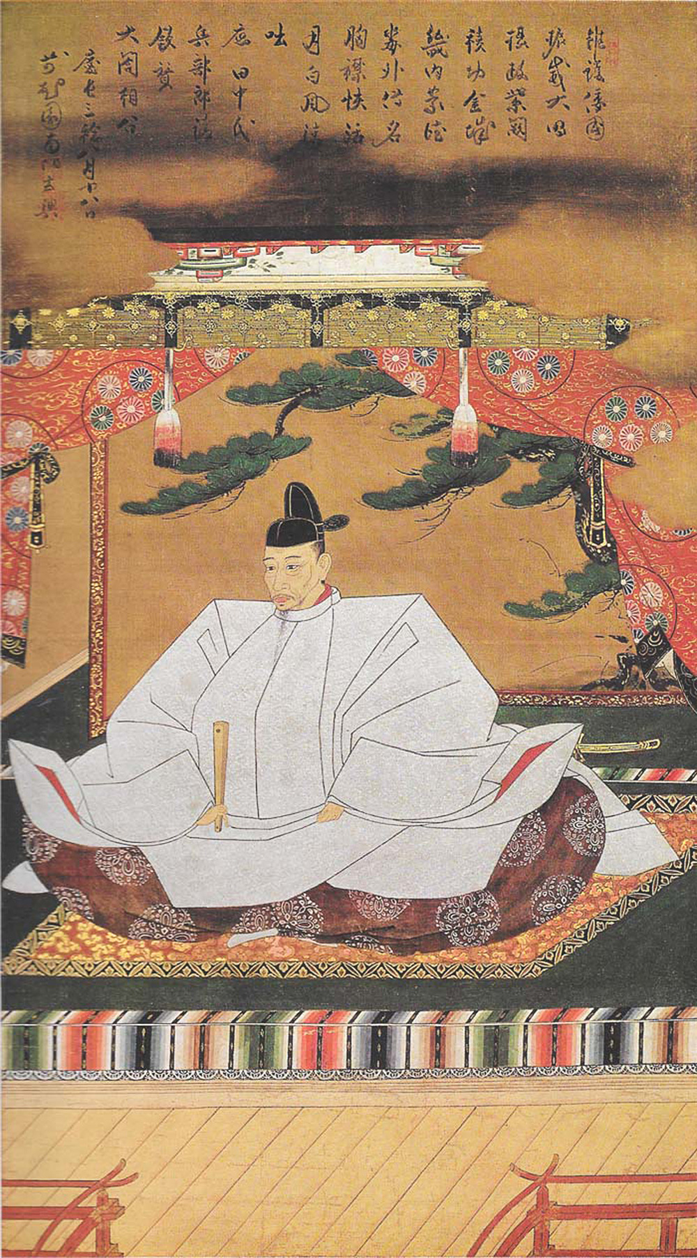 Portrait of Toyotomi Hideyoshi at Kodaiji temple warehouse, Kyoto, Japan